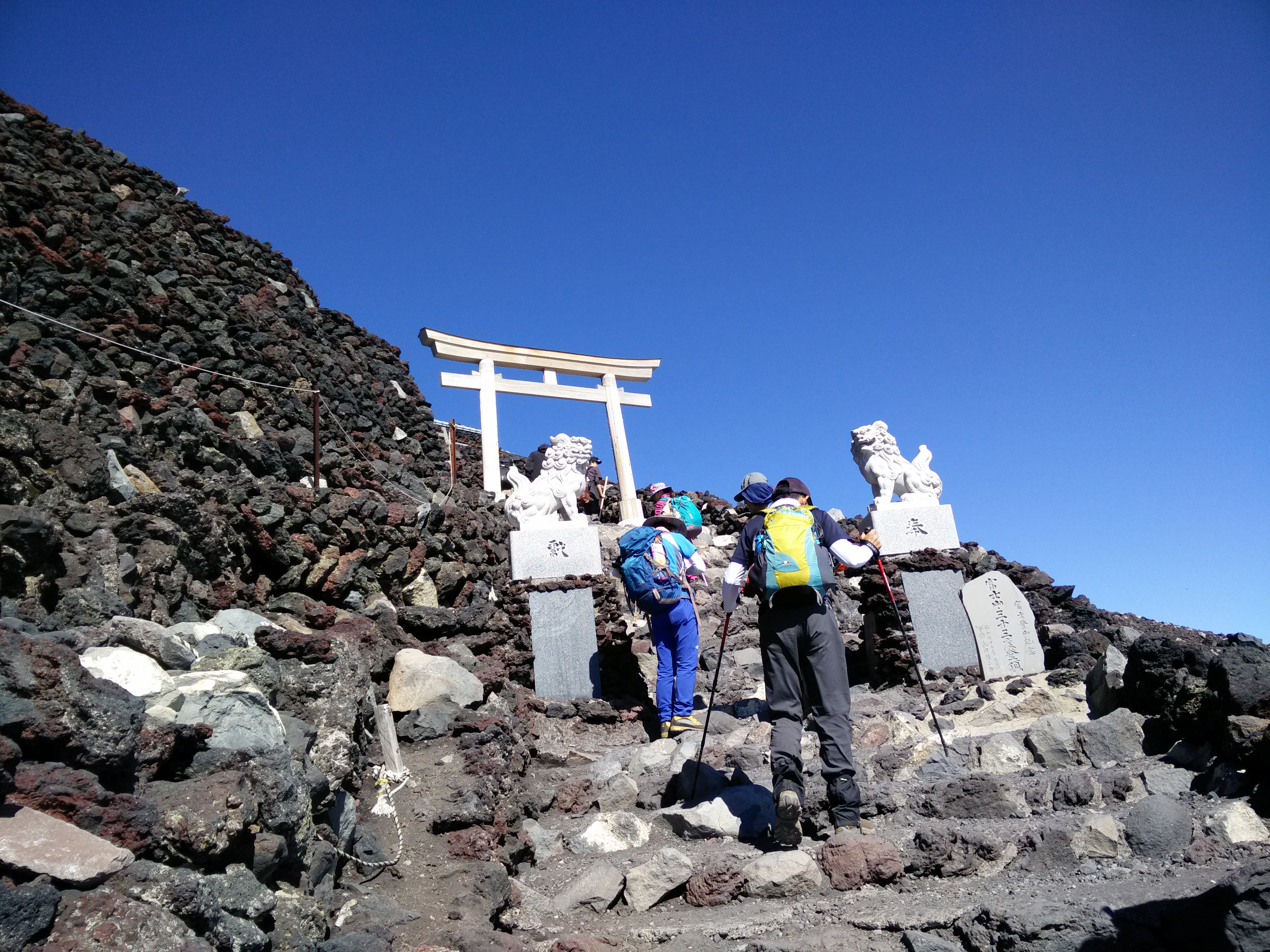 Torii near the summit of mount Fuji 2015